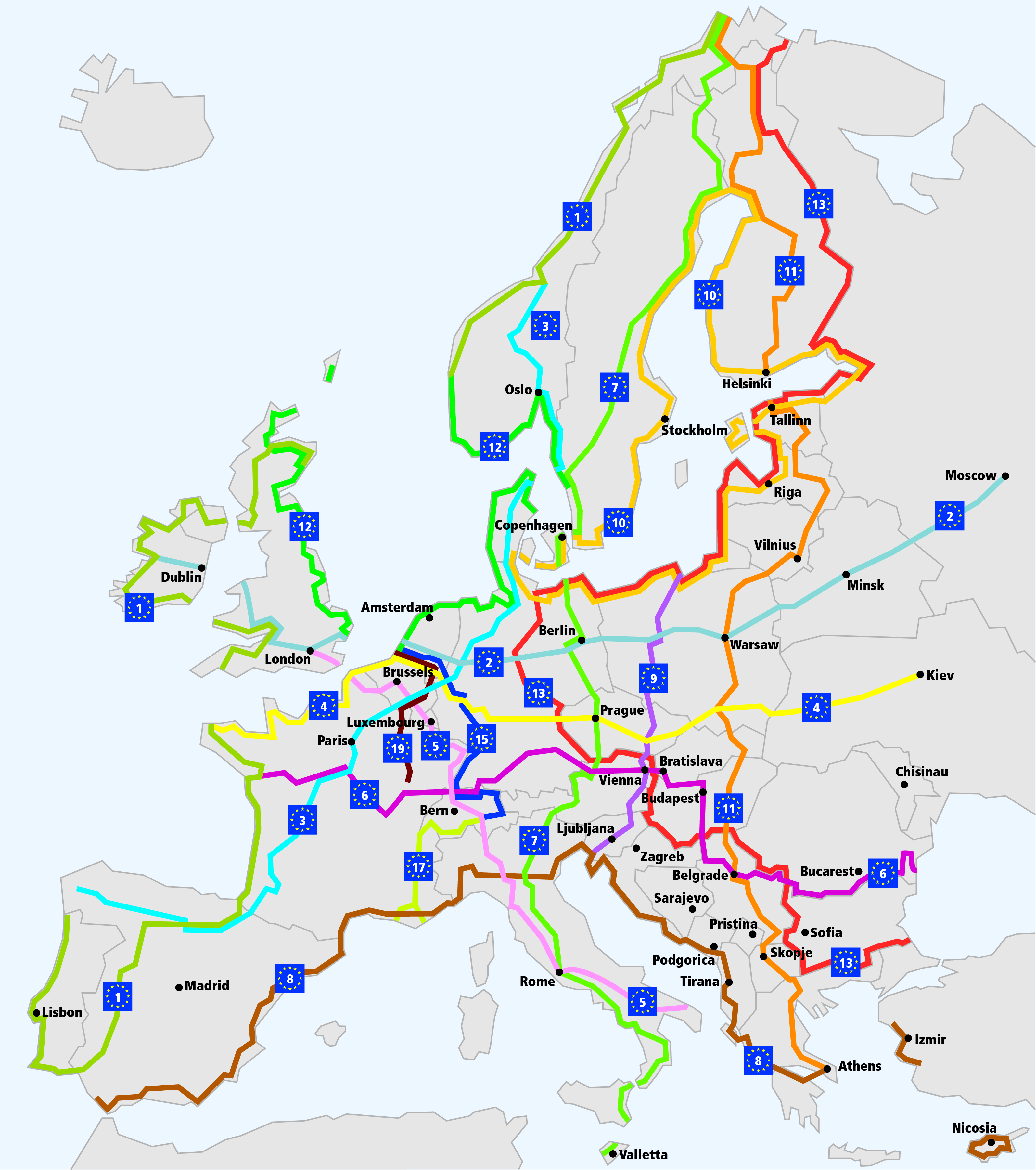 EuroVelo cycle route network. Routes 1-19 as of November 2019